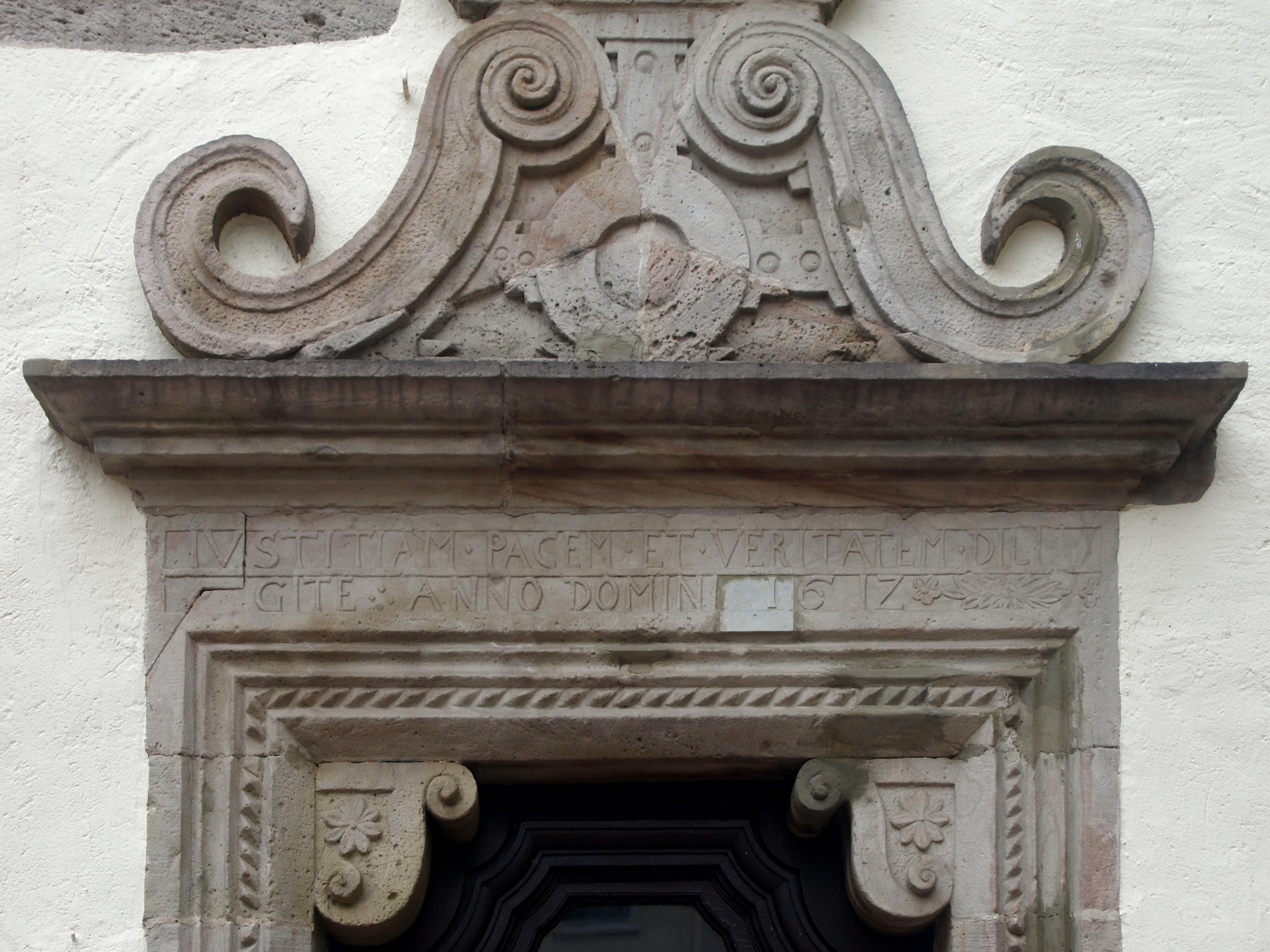 The old motto of the town Hersfeld, in the door lintel. Latin: "JUSTITIAM PACEM ET VERITATEM DILIGITE ANNO DOMIMO (1)612", translation:"respect justice, peace and trueness"